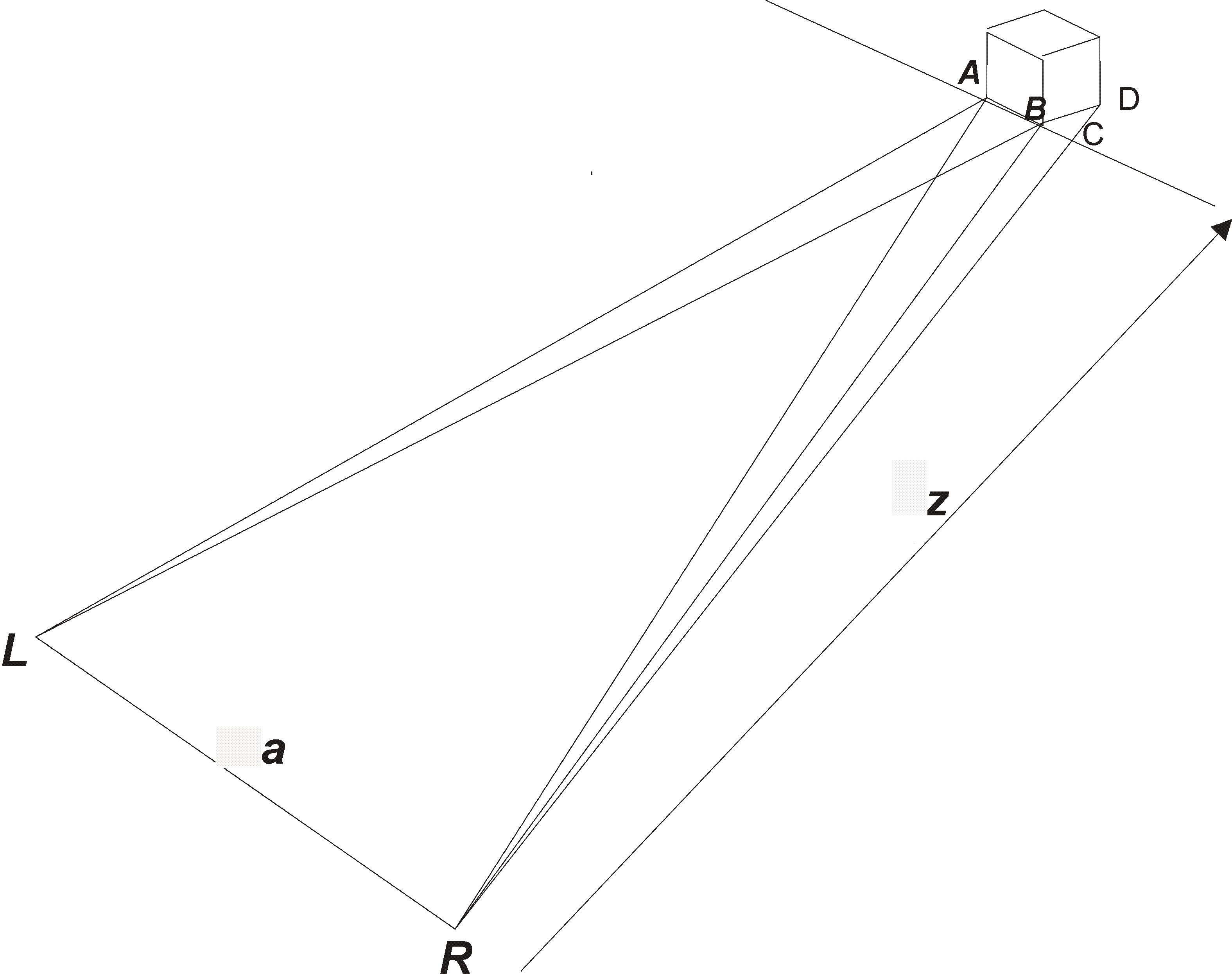 A small cubical target ABD at a distance z from a stereodevice whose two components R and L are separated by a. For viewing purposes, the depth is represented by BC, the intercept in the target plane of the two lines of sight to the back surface of the cube. The depth/width ratio of the actual target is 1.00; that of the representation in the target plane is the ratio of the angles subtended by and depth (BC/z) and width (AB/z). Category: 3D